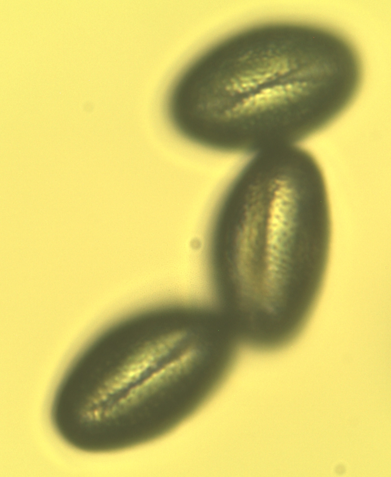 Pollenkörner des Klatschmohn (400x)